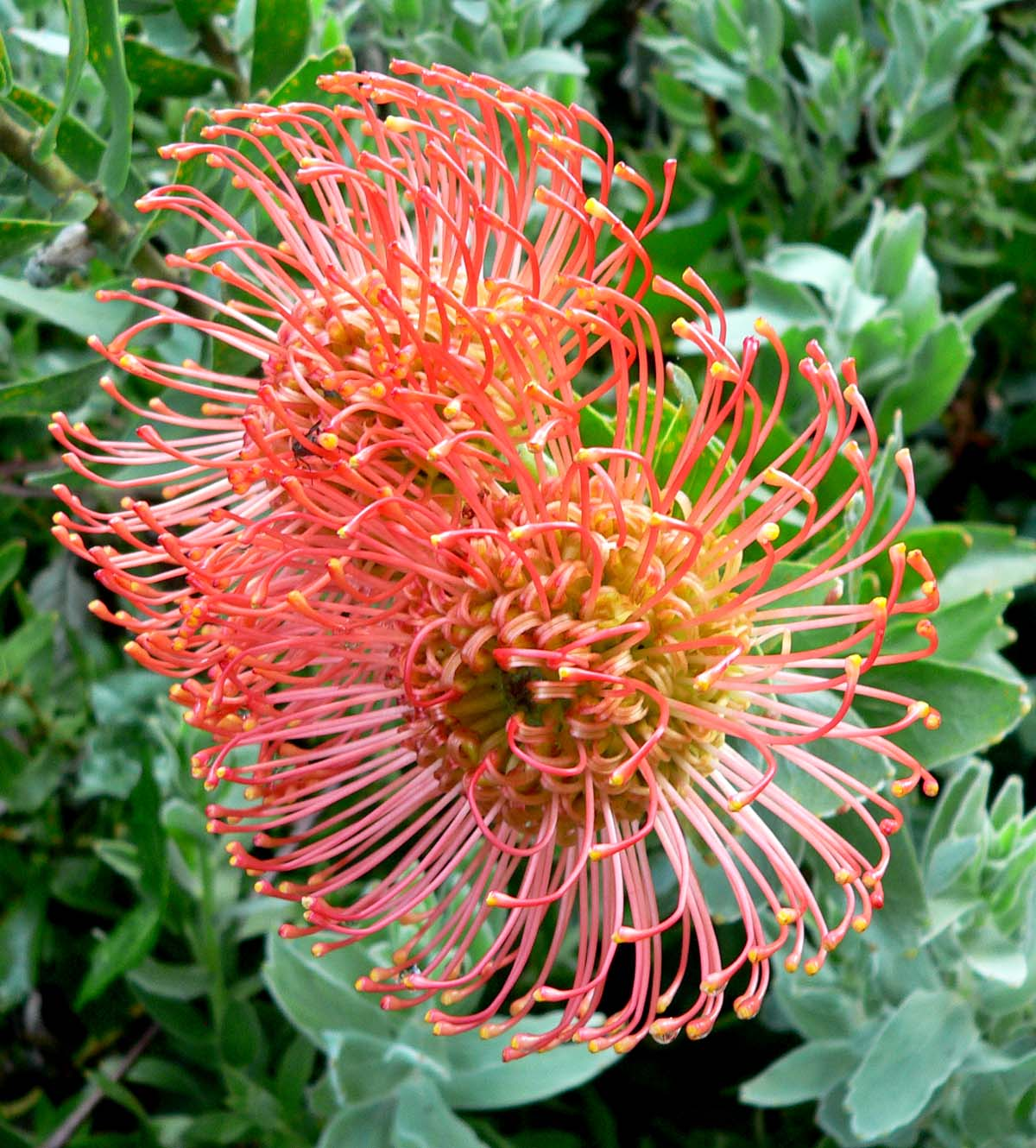 Photo of Leucospermum cordifolium at the San Francisco Botanical Garden